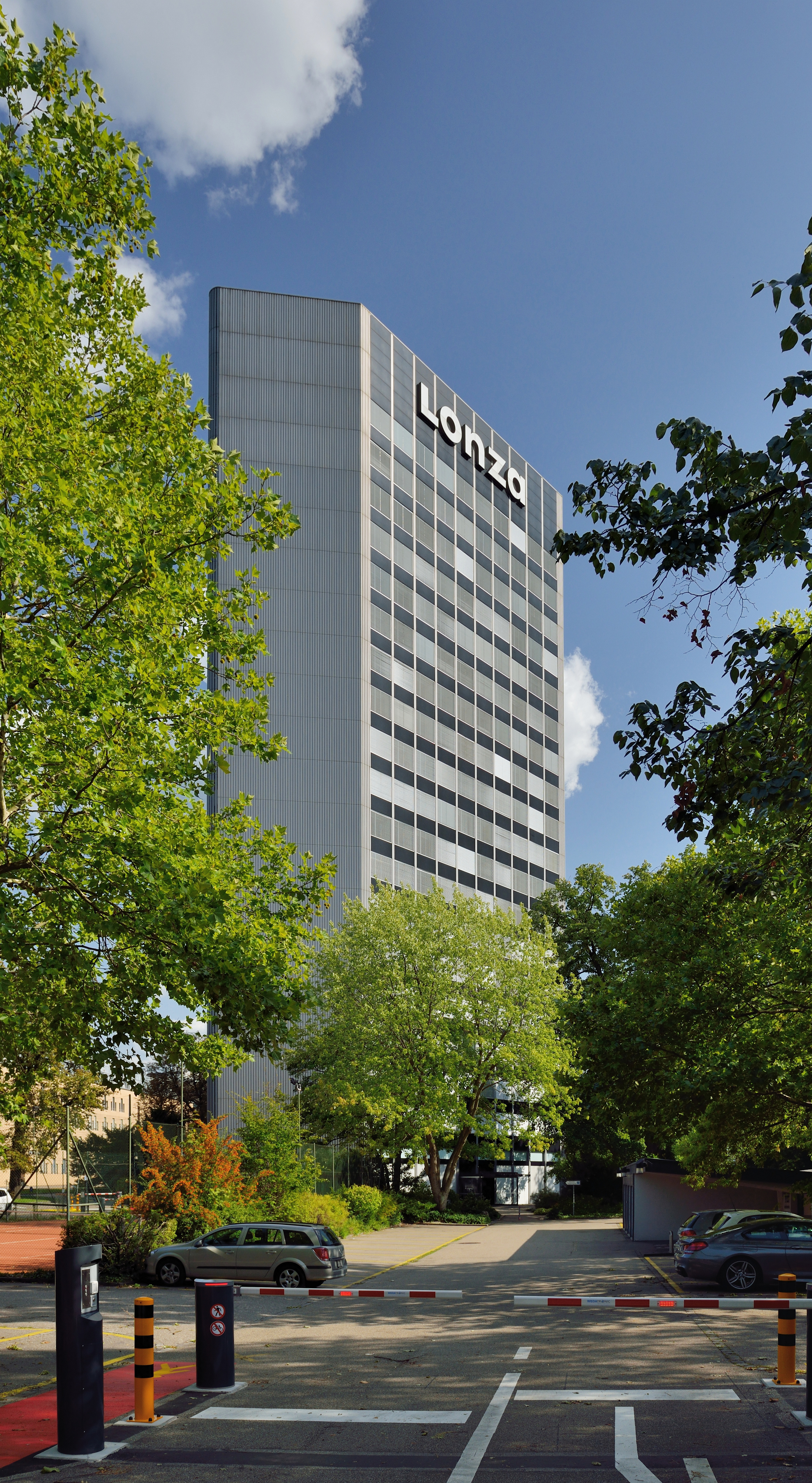 Basel: Lonza building